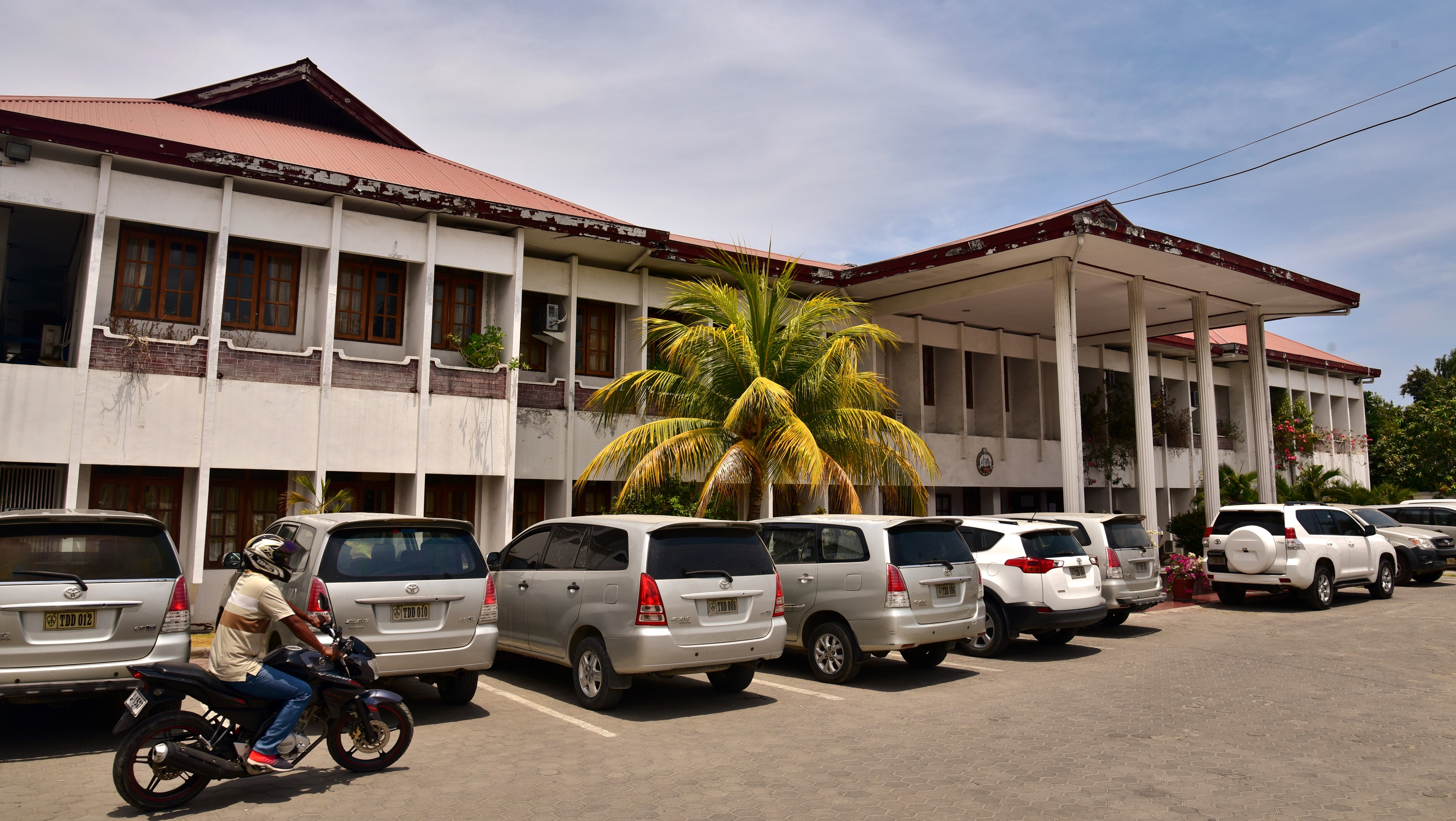 The Tribunal Distrital de Díli (District Court of Dili), Rua Abílio Monteiro, Dili, East Timor